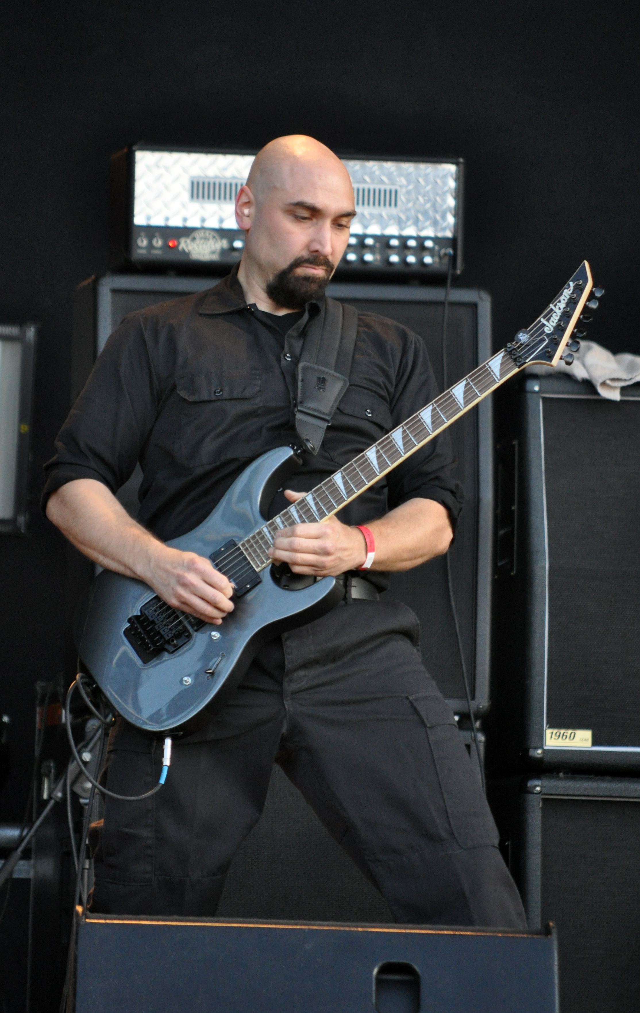 Immolation at Party.San Open Air 2012